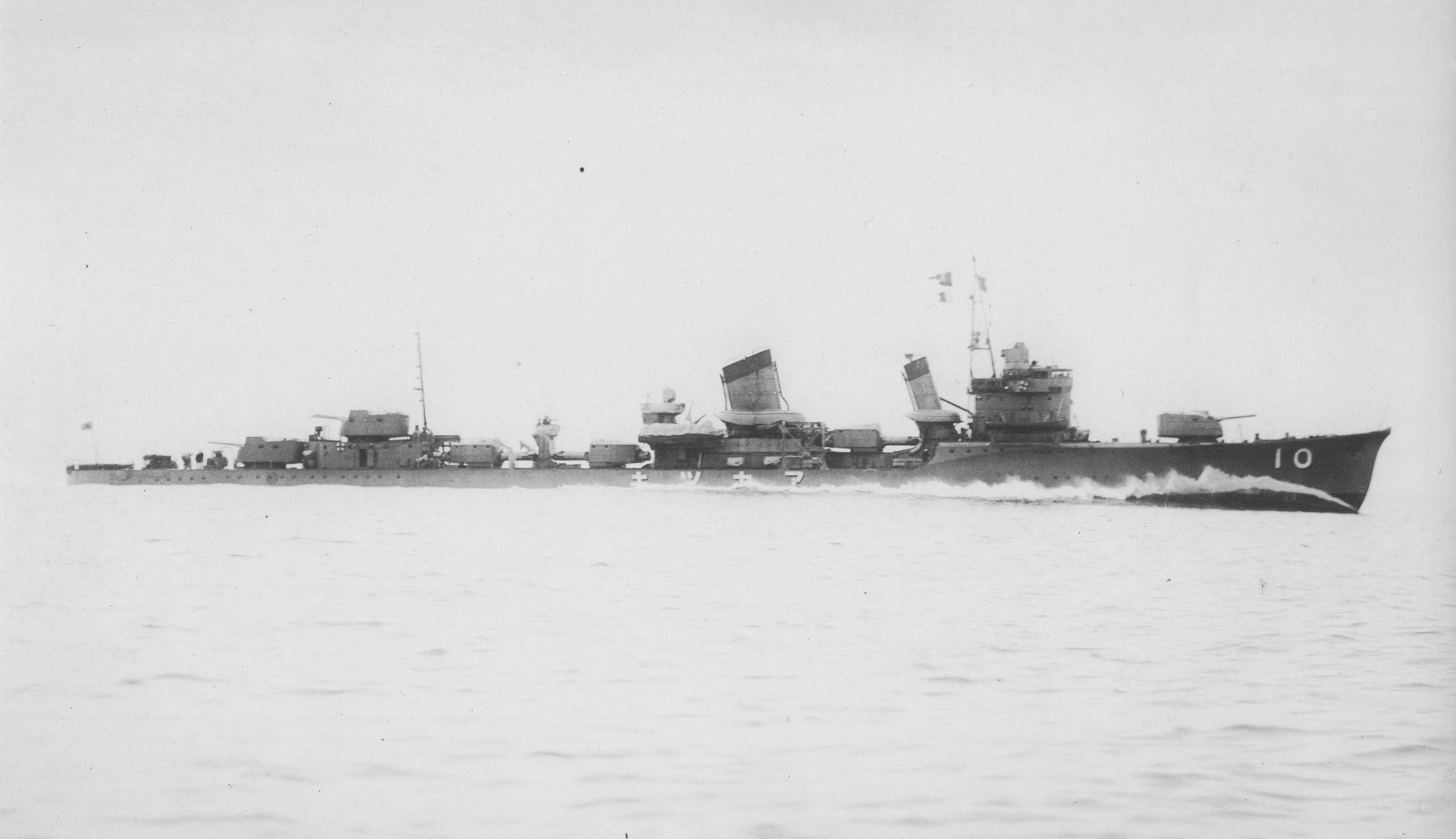 Imperial Japanese Navy destroyer Akatsuki, the second Japanese warship to bear that name.